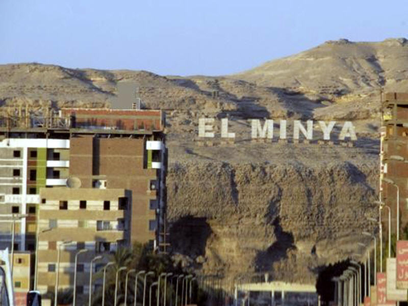 Minia city sign - from Minia Cornich Road.